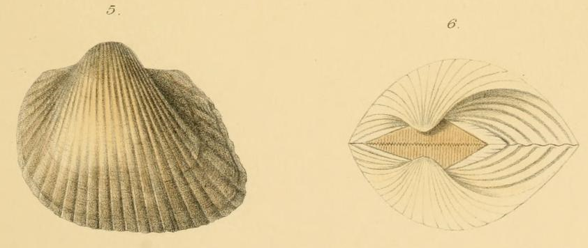 Anadara uropigimelana (Bory de Saint-Vincent, 1824), Arcidae, Bivalvia, from Kobelt (1891: pl. 23 figs. 5,6)